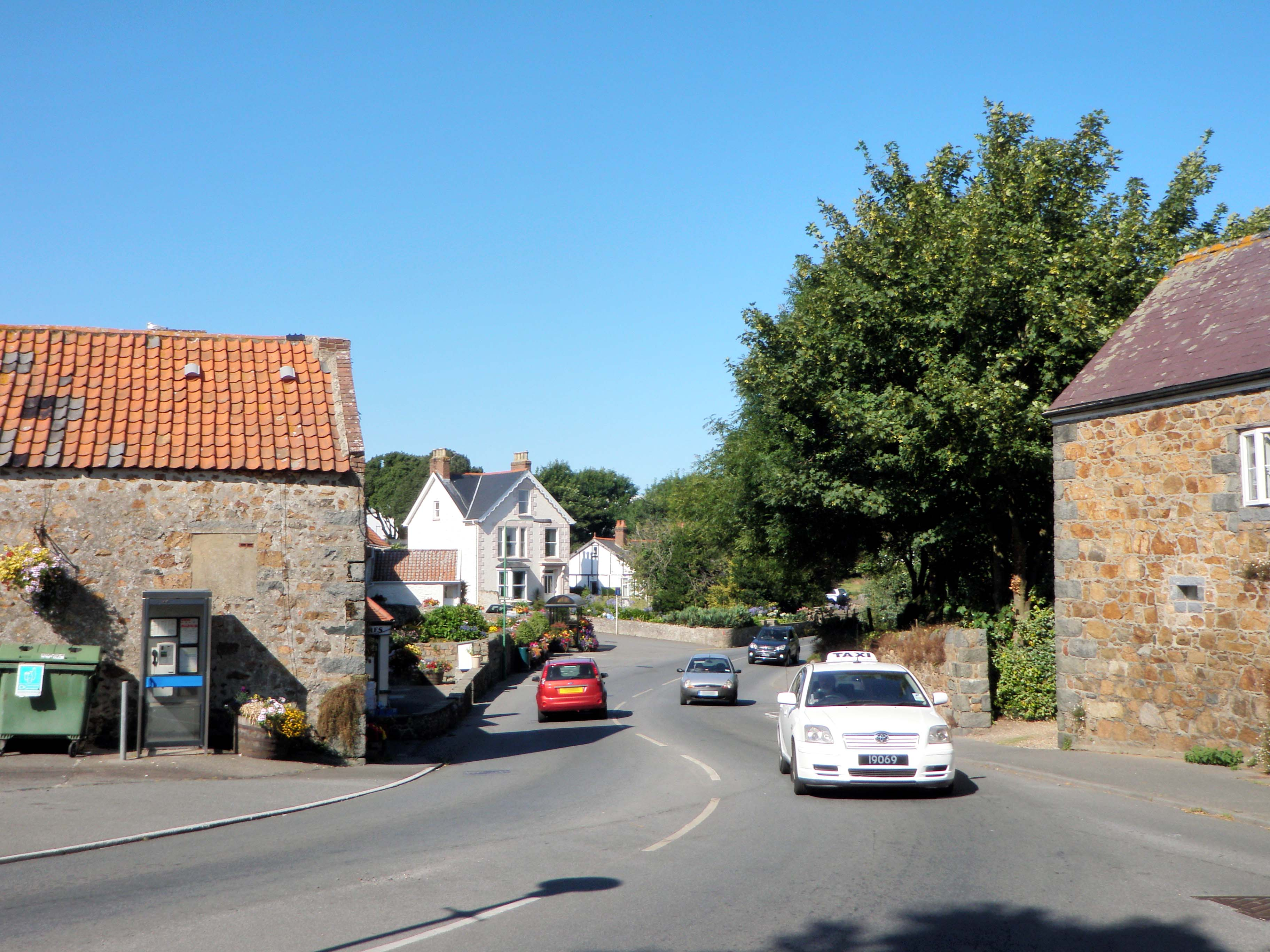 View of the Rue des Landes road between Guernsey Airport and Ste Marguerite de la Foret (Forest Church) in Forest, Guernsey.